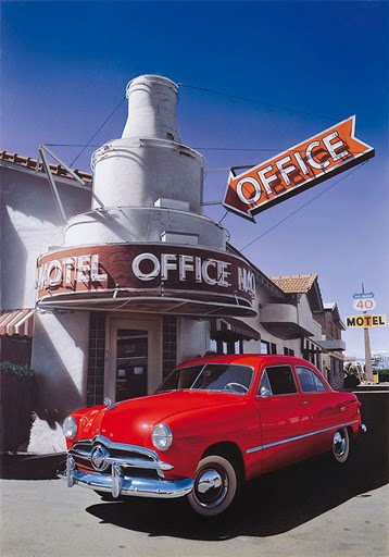 maestro G. Boatto first hyper-realistic painting.